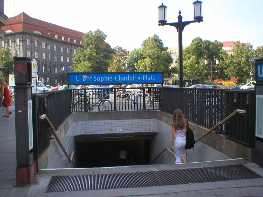 Entrance to the Berlin U-Bahn station Sophie-Charlotte-Platz, line U2